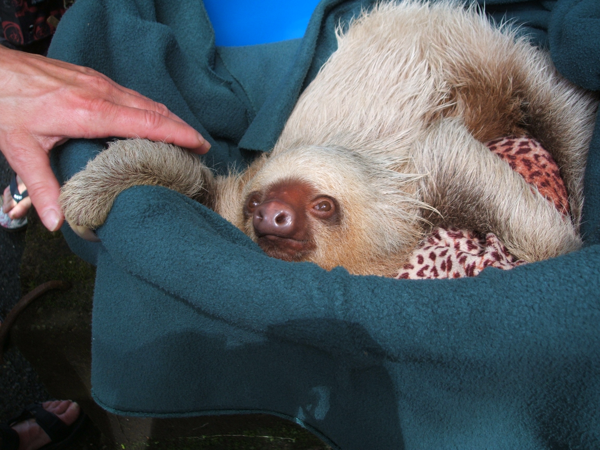 Baby two-toed sloth (Choloepus hoffmanni) at the Caña Blanca wildlife sanctuary on the Golfo Dulce, Costa Rica. It had been rescued after being separated from its mother in the wild somehow. In lieu of a mother to cling to, they gave it a hot water bottle, which you can see beneath it in its basket.